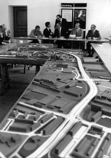 Signing of the building contract of Noorderbrug in Maastricht, Netherlands in 1981. In the foreground a scale model of the project. Photo collection: RHCL, Maastricht, ref. nr. 10919.